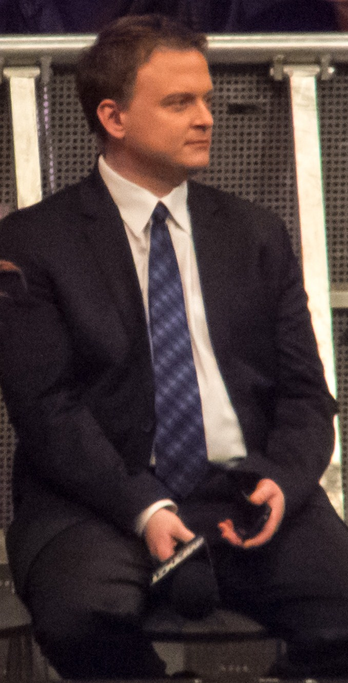 Jeremy Borash at the Impact! TV Tapings in Wembley on January 26, 2013.